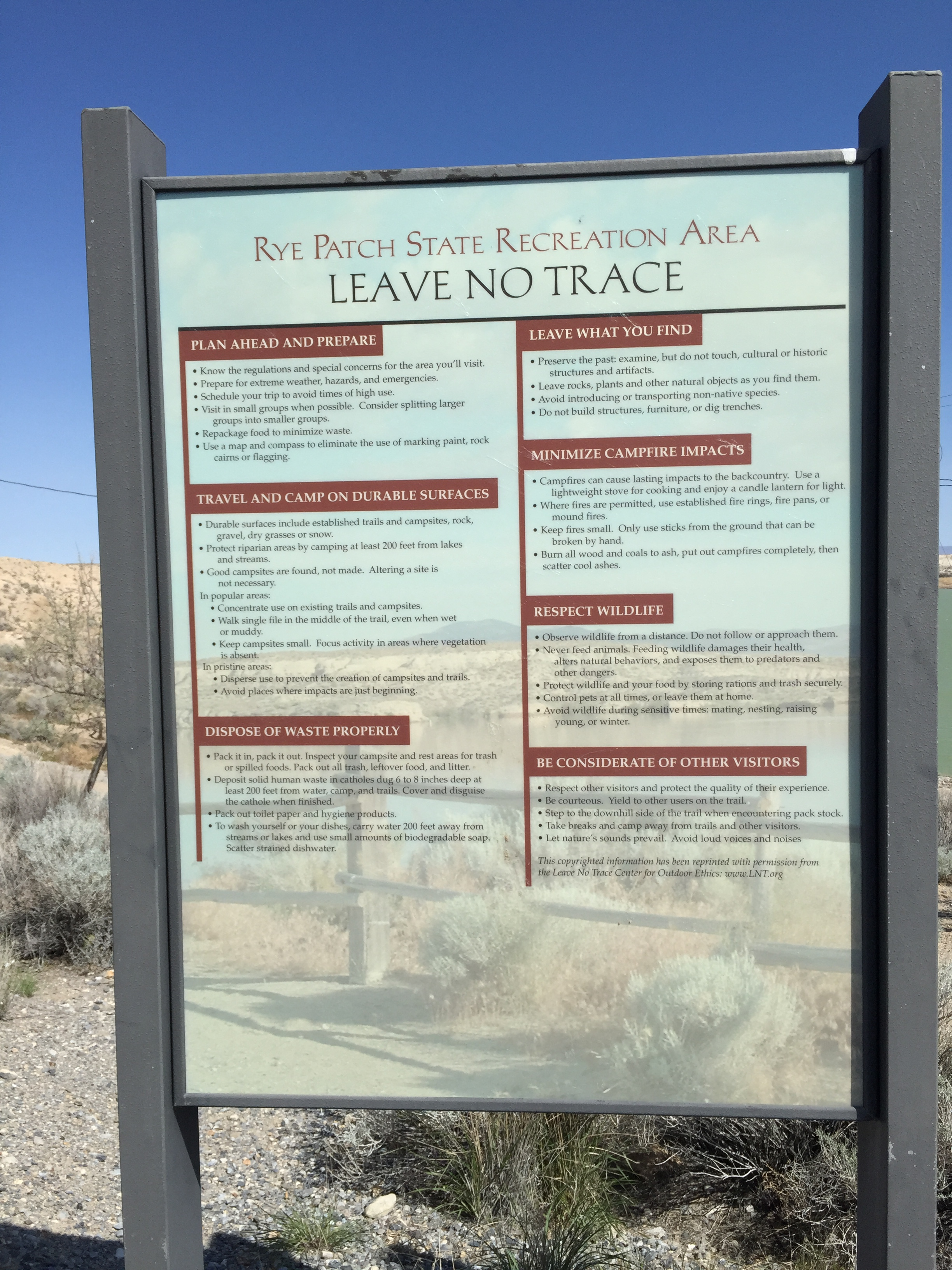 Leave No Trace descriptive sign at Rye Patch State Recreation Area in Pershing County, Nevada